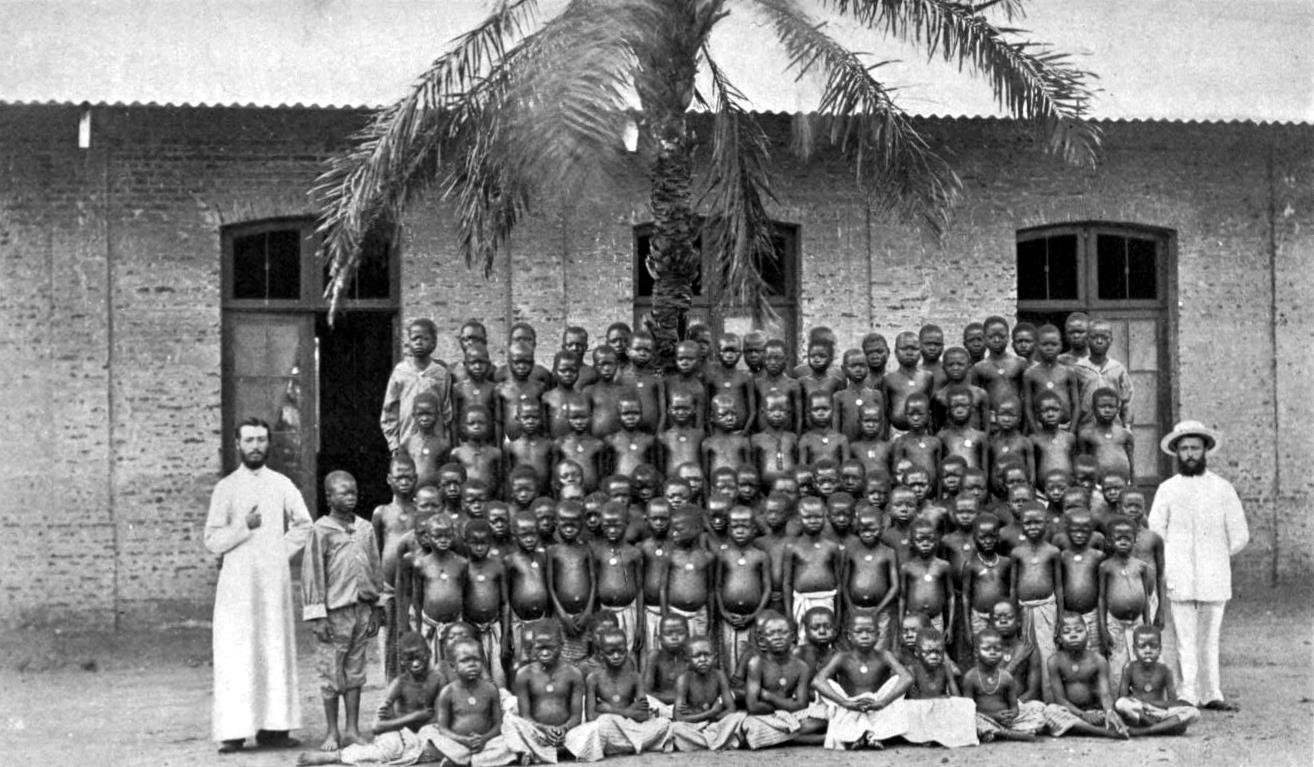 Children of the Settlement School, Boma - p. 234